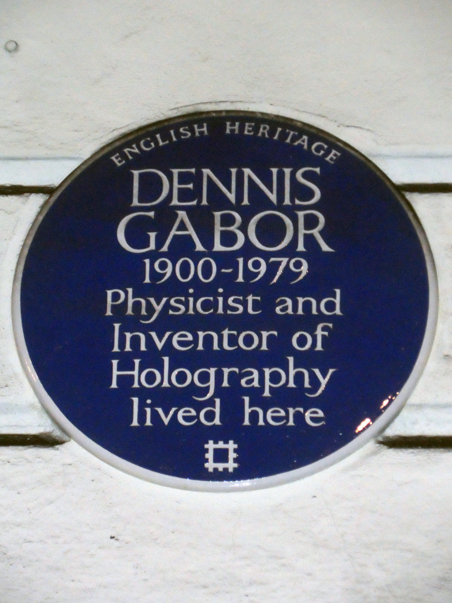 79 Queen's Gate, Knightsbridge, SW7 5JU